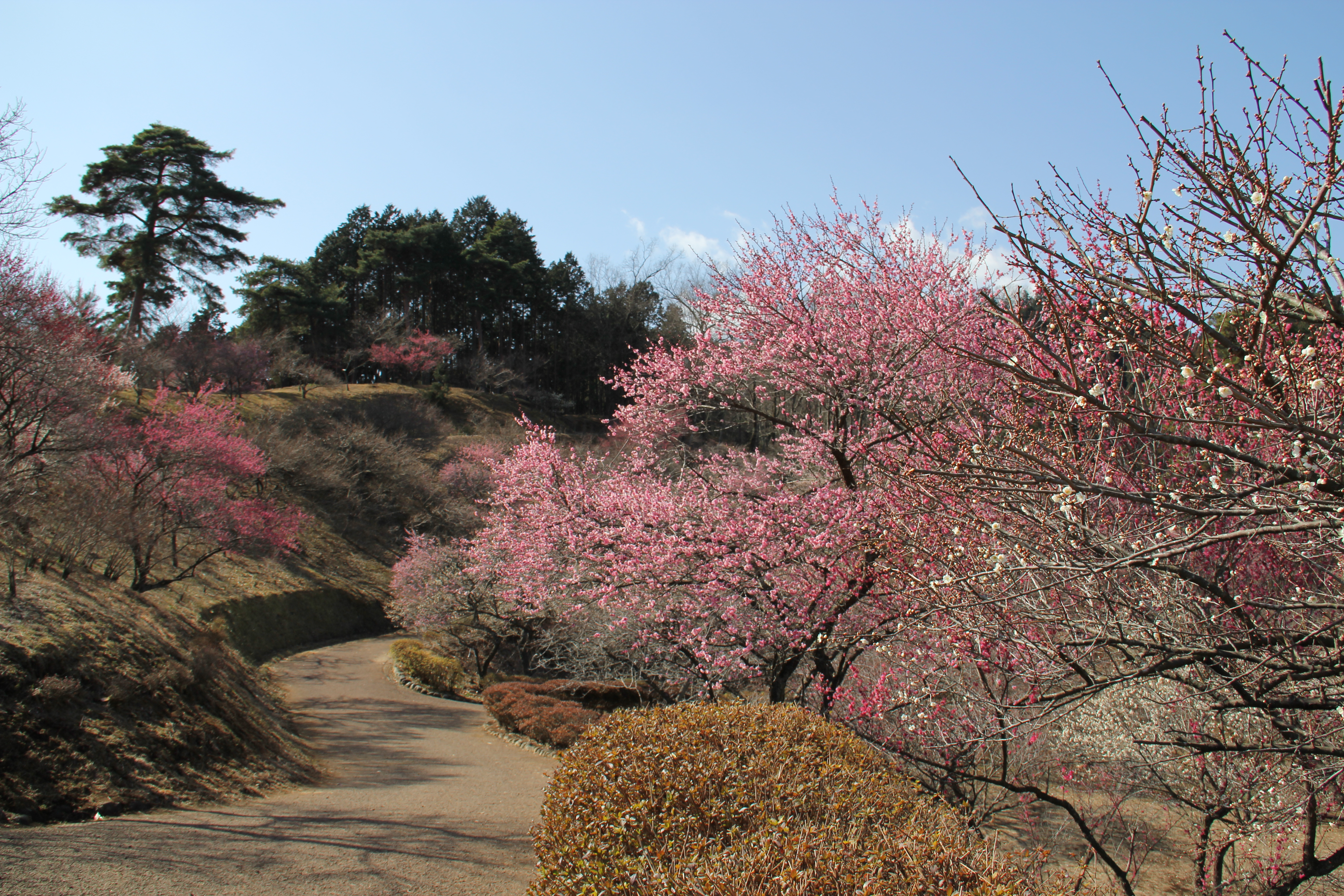 ume park in Tokyo